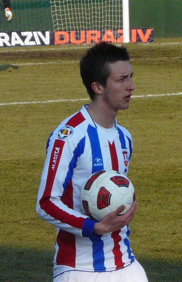 Cornel Rapa in March 2011, during Otelul - Rapid